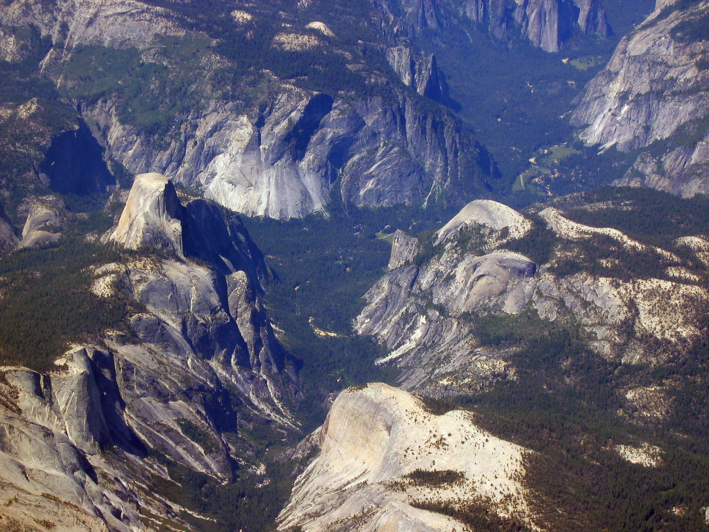 An unusual view of Yosemite Valley from the east looking west. Half Dome rises majestically on the left.